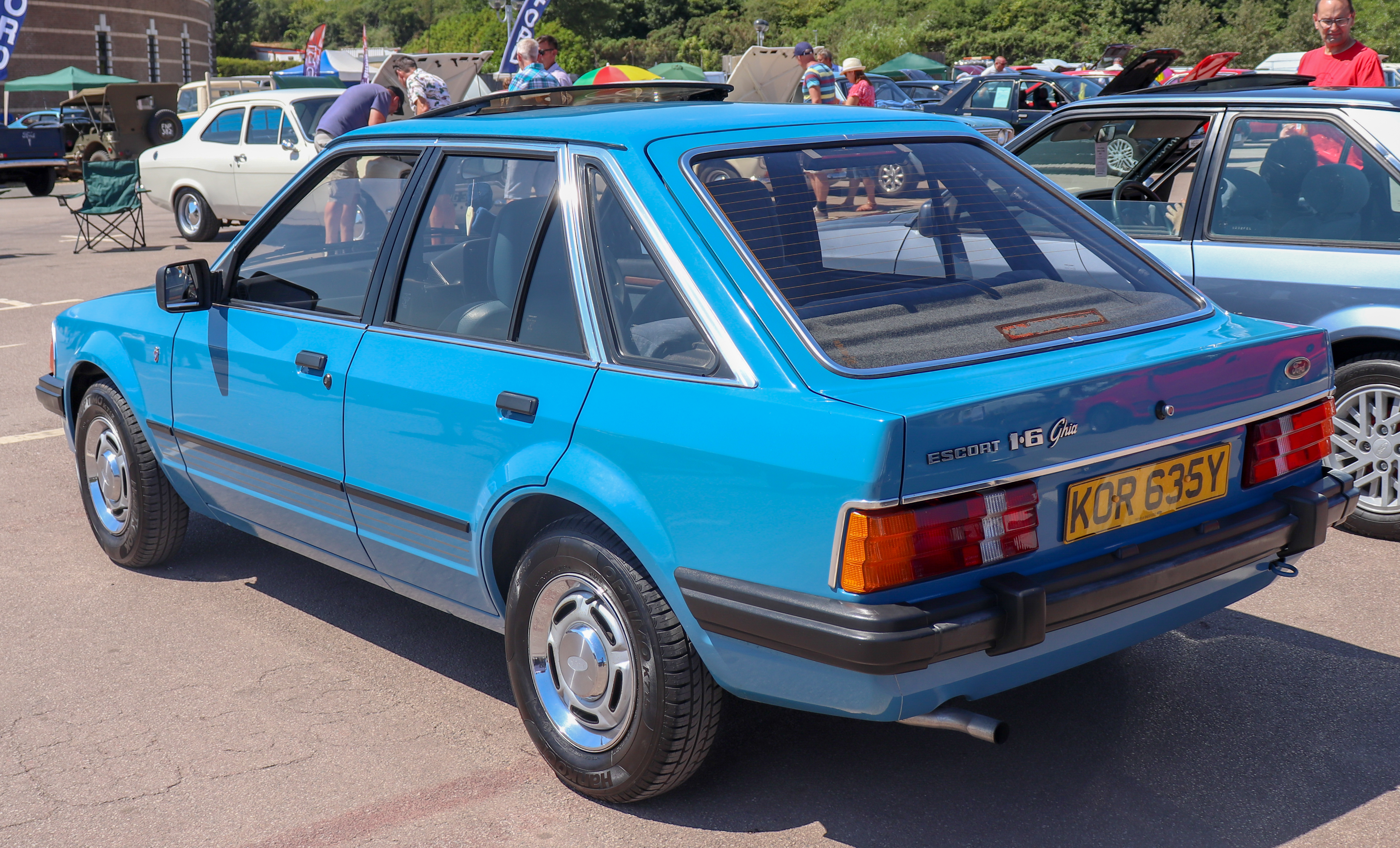 1982 Ford Escort Ghia 1.6 Rear Taken at the British Motor Museum Old Ford Rally 2018, Gaydon